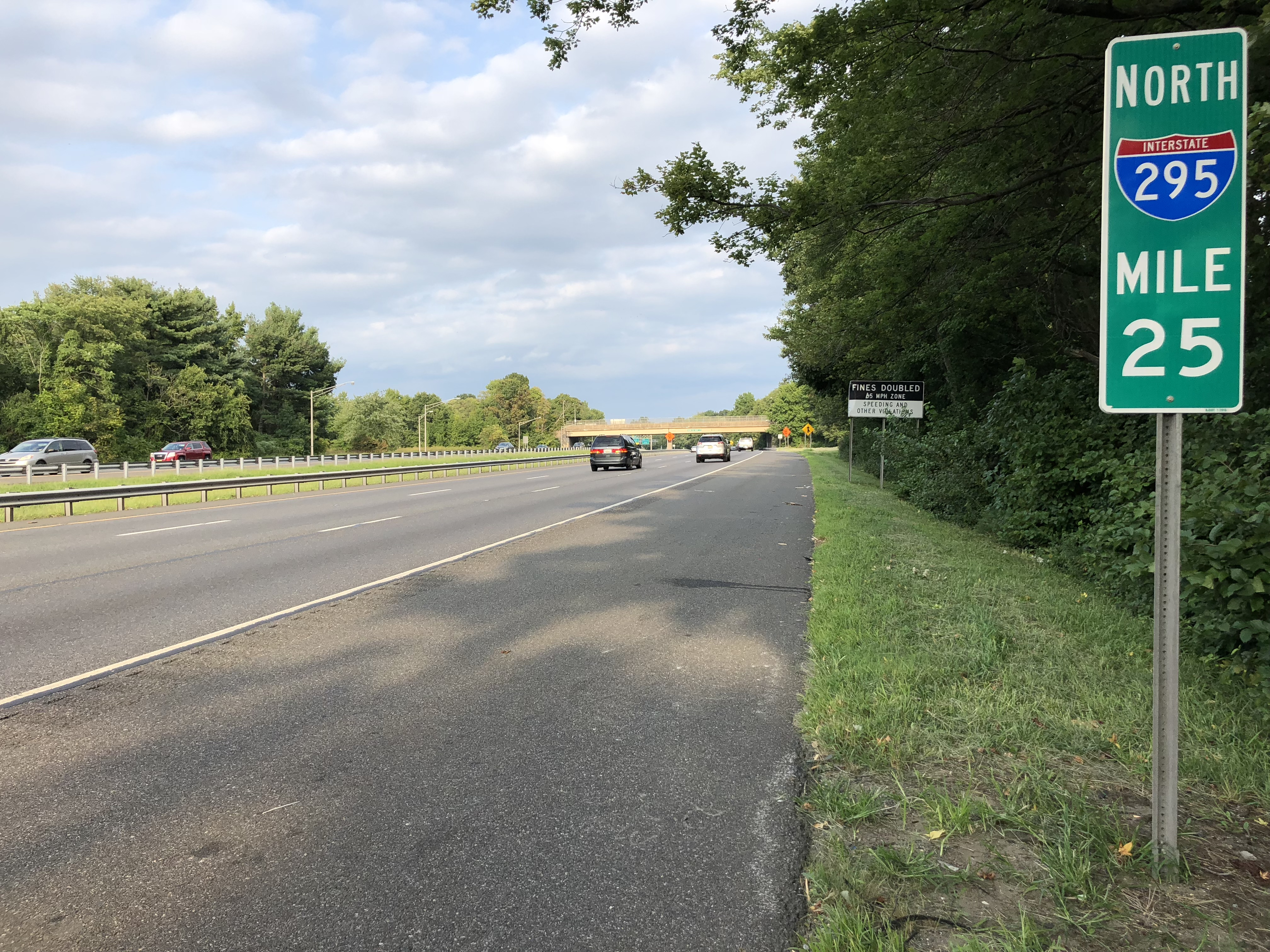 View north along Interstate 295 north of Exit 23 in Westville, Gloucester County, New Jersey